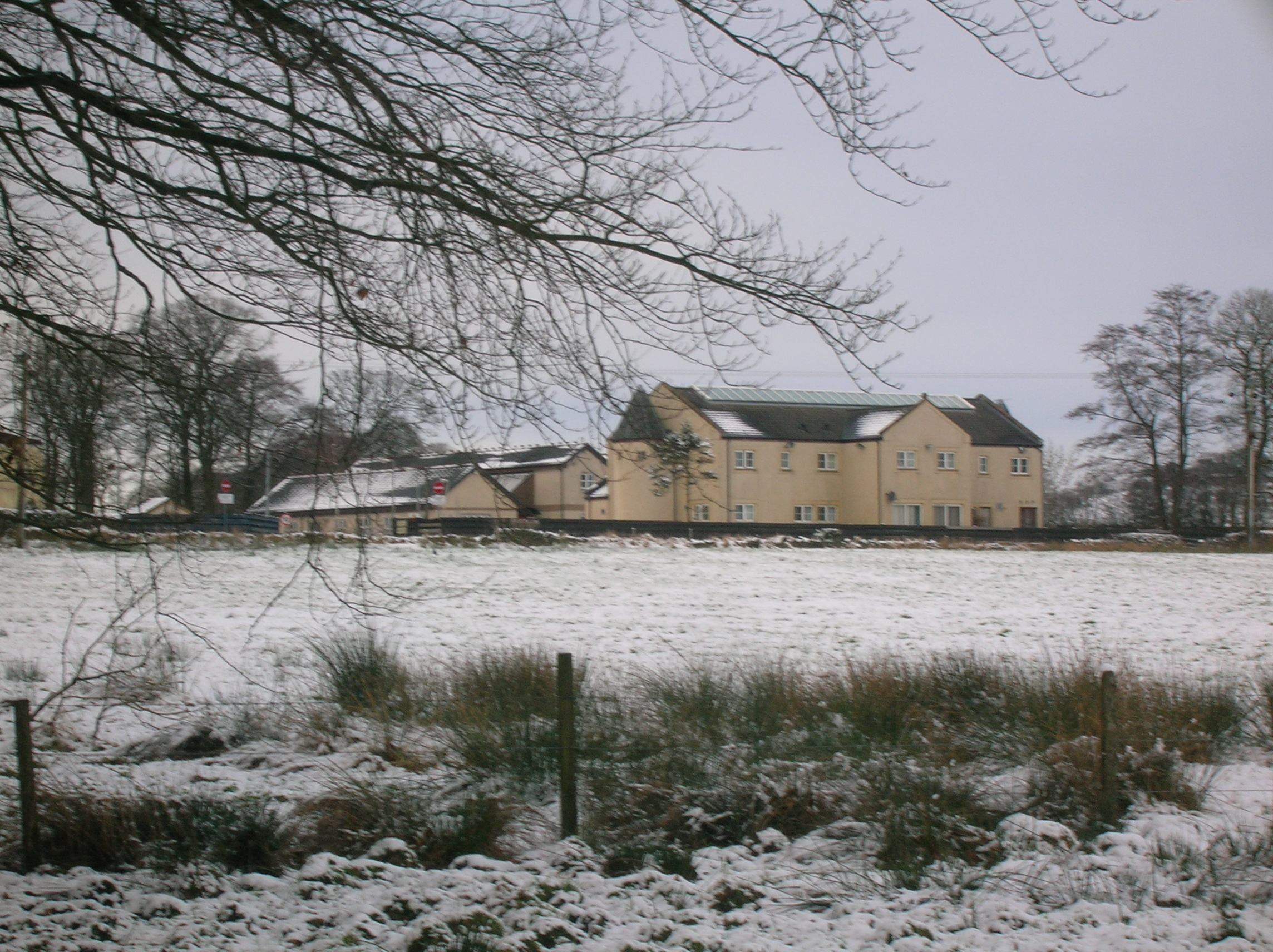 Geilsland school from Spier's old school grounds, Irvine, North Ayrshire, Scotland